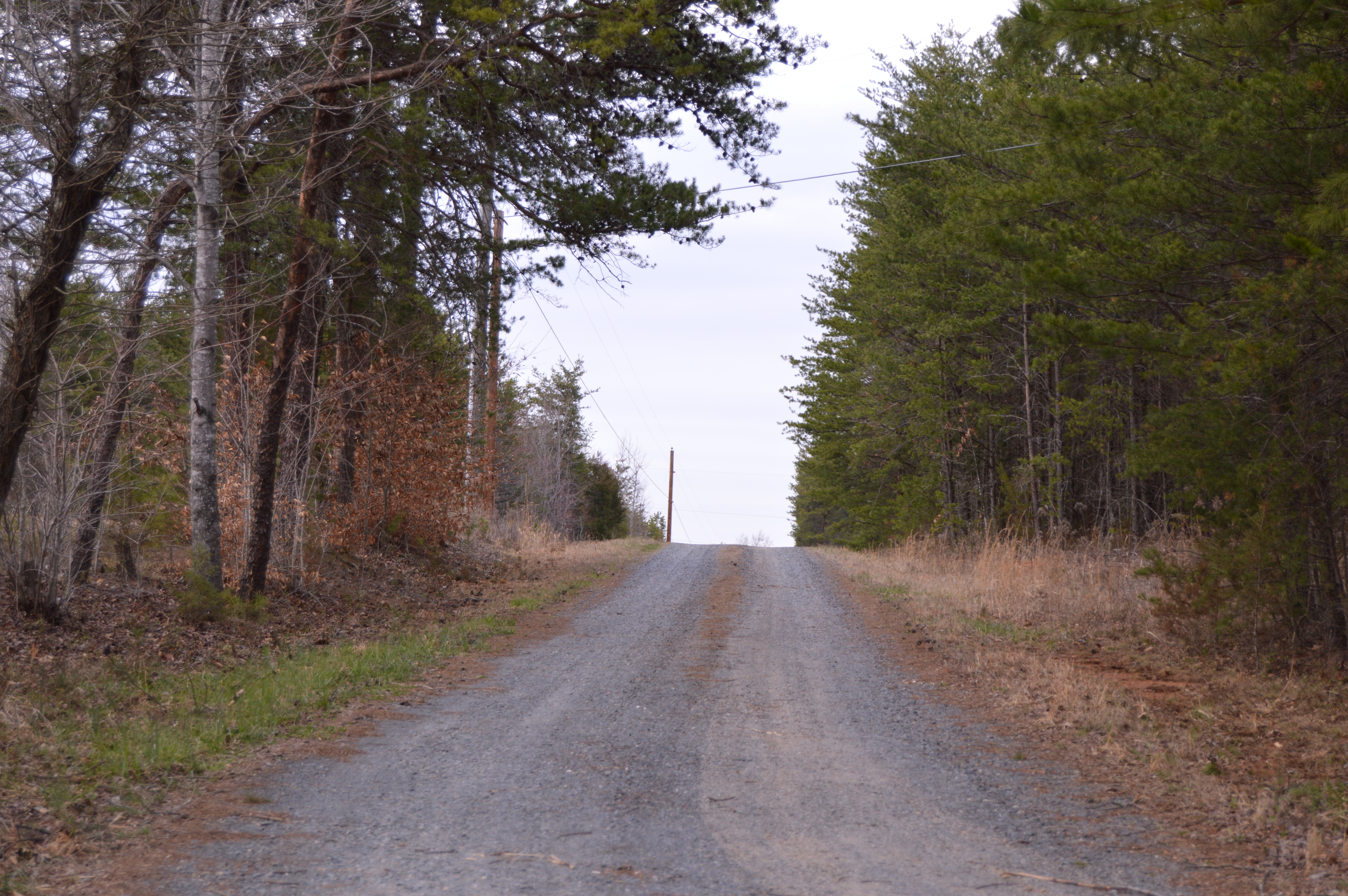 Driveway to the Guerrant House, located at 6911 Bridgeport Road southeast of Scottsville in Buckingham County, Virginia, United States. The property is listed on the National Register of Historic Places.